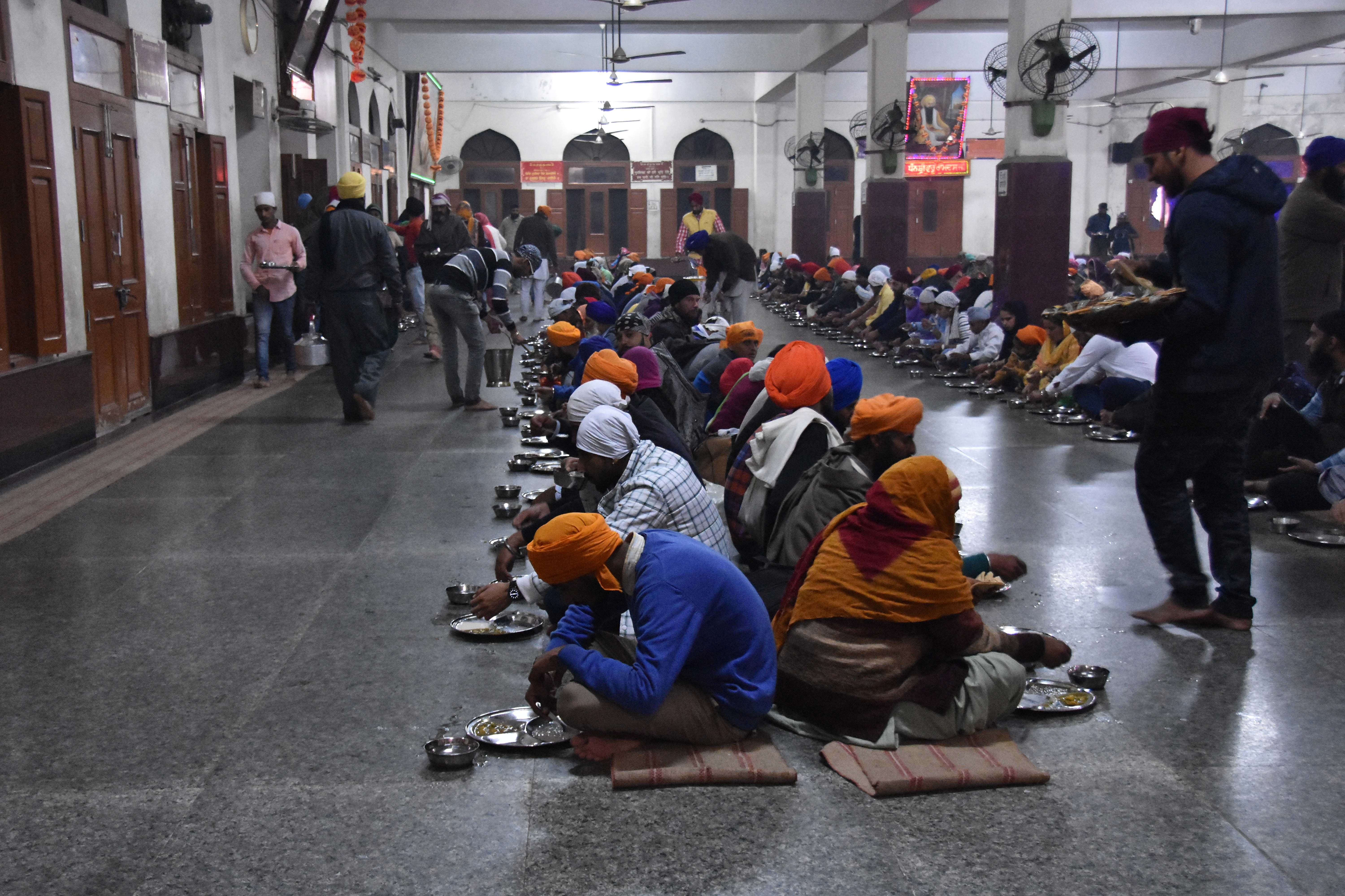 So this is the interior of the famous 'langar' in the Harmandir Sahib/ Golden Temple complex, which offers free meals for one and all, irrespective of caste, faith or religion. 'Langar' (which roughly translates to kitchen) is the term used in Sikhism for the community kitchen in a Gurdwara where a free meal is served to all the visitors, without distinction of religion, caste, gender, economic status or ethnicity. The free meal is always vegetarian.People sit on the floor, eat together, and the kitchen is maintained and serviced by Sikh community volunteers. At the langar, all people eat as equals. The exception to vegetarian langar is when Nihang Sikhs serve meat in some Gurdwaras, on the occasion of Holla Mohalla, (a Sikh festival) and call it Mahaprasad. Portions in the langar are unlimited and volunteers come around continuously offering you more roti (Indian unleavened bread), dhal (boiled and spiced lentils), kheer (warm rice pudding) or drinking water. (Amritsar, Punjab, northern India, Nov. 2017)